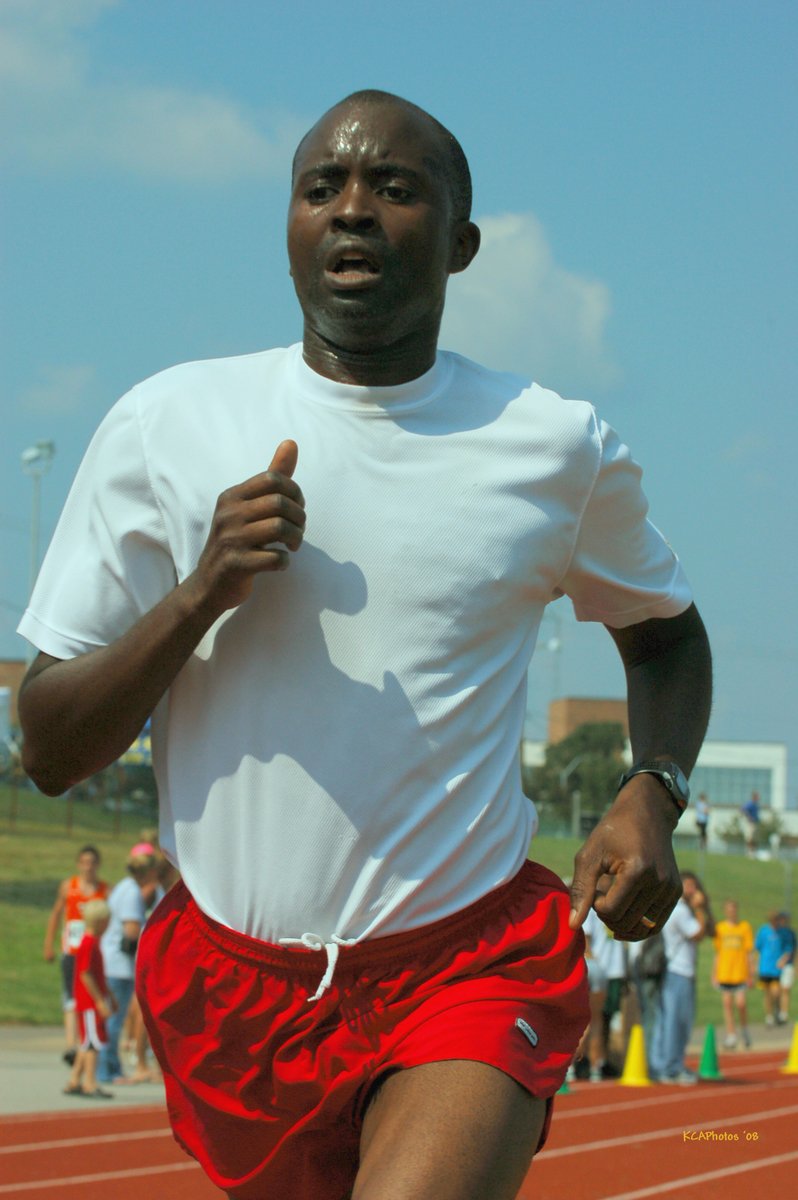 Godfrey Siamusiye at the Southern Stampede in 2008